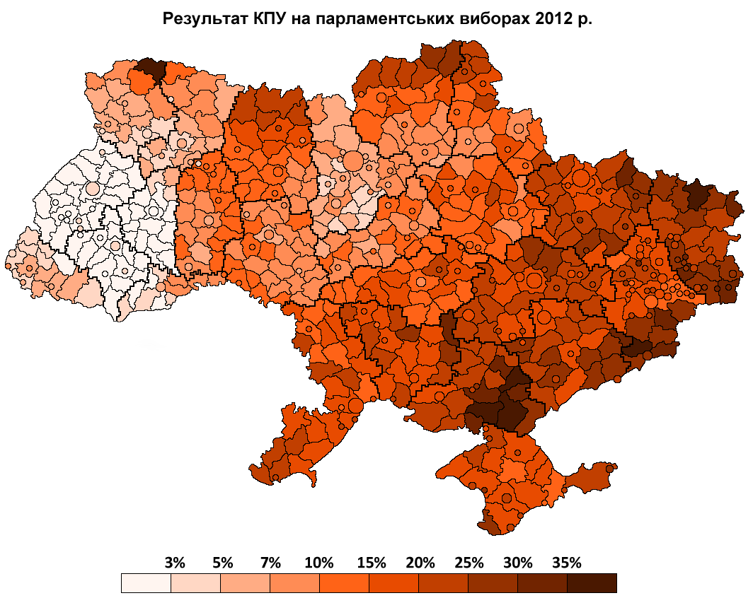 Communist Party's results on Ukrainian parliamentary elections 2012